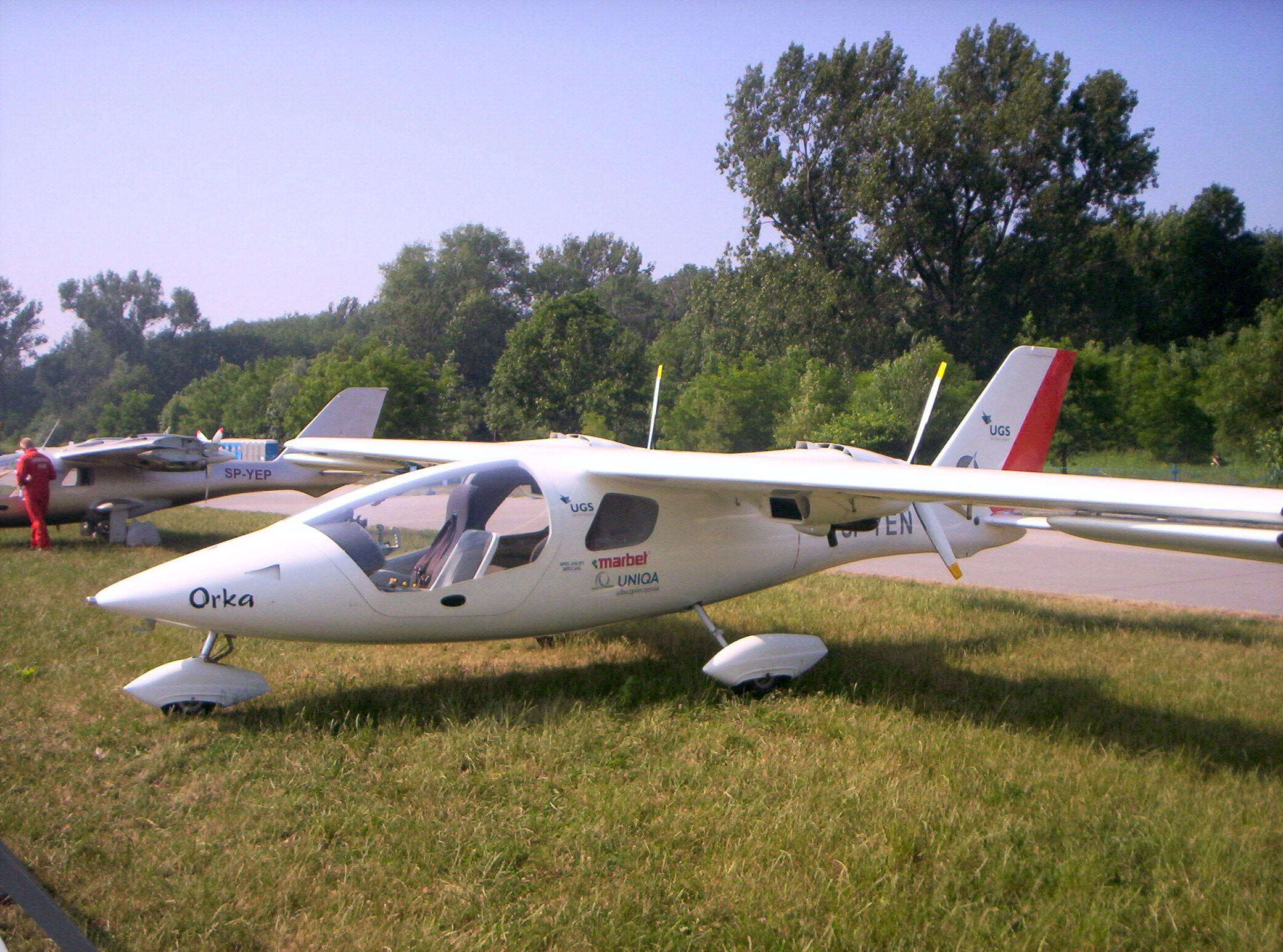 Polish utility aircraft EM-11 Orka (first prototype SP-YEN)